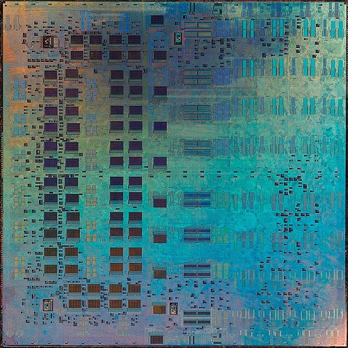 Processor TRPS